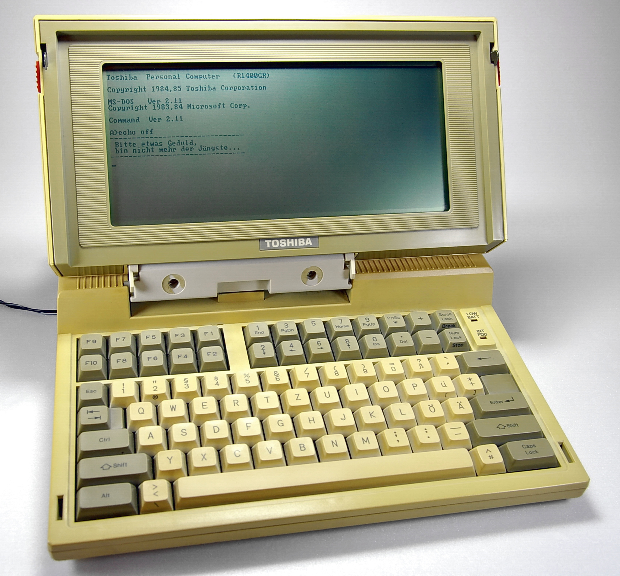 Laptop Modell T1100 from Toshiba, German version